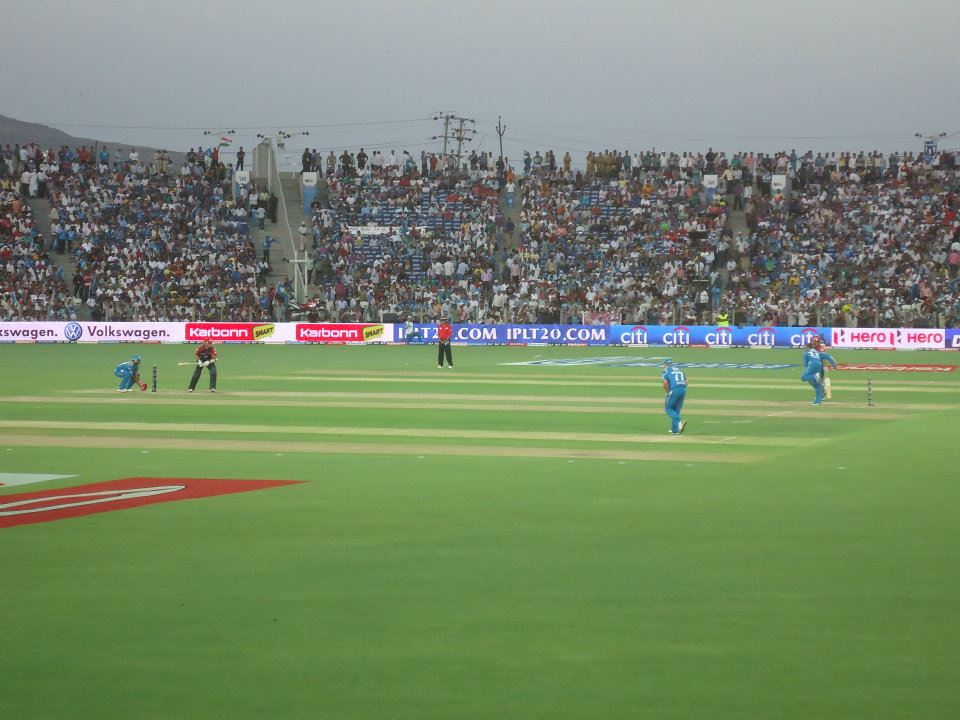 Indian Premier League